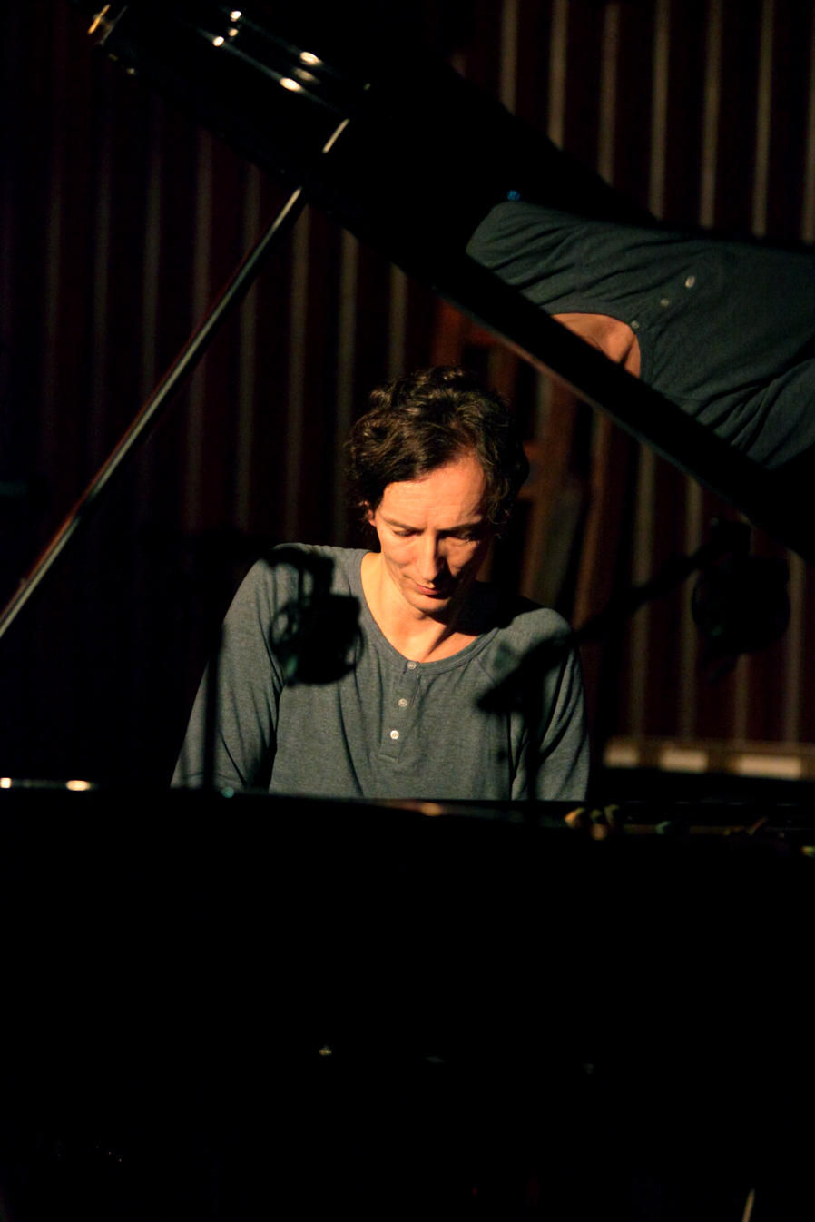 Volker Bertelmann alias Hauschka during a performance in The Sugar Club, Dublin in 2009